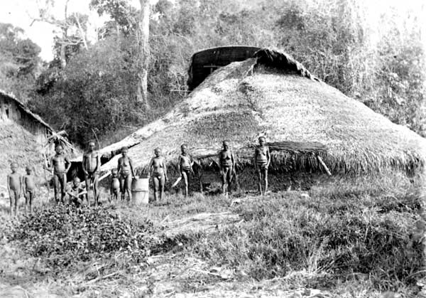 An unusual group of large Great Andamanese communal huts, ca. 1886.